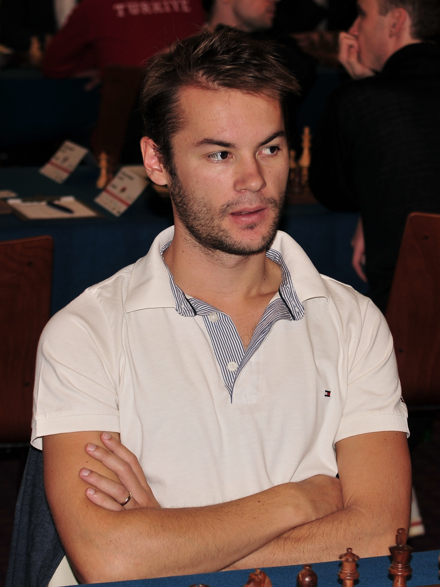 GM Ivan Šarić, European Chess Team Championship Warsaw 2013